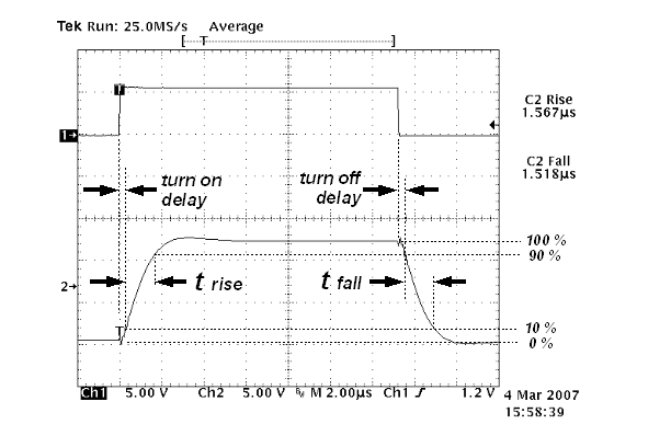 turn on and turn off times, rise and fall times of a rectagular singnal upper trace: input signal; lower trace: output signal